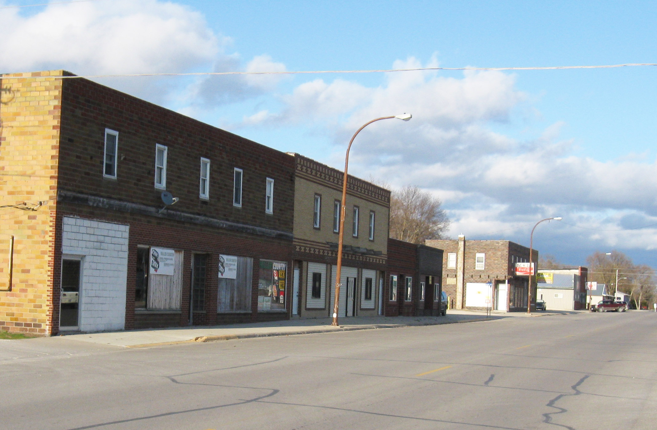 Dakota City, Iowa. Bill Whittaker (talk) 13:13, 23 April 2009 (UTC)